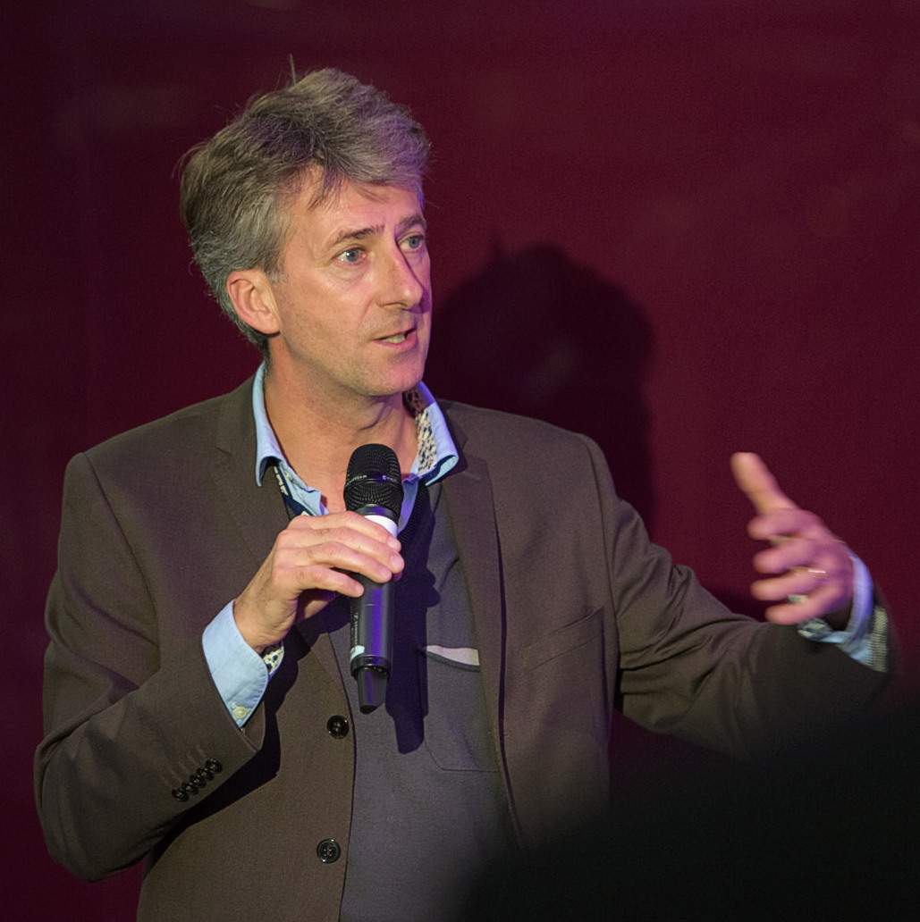 BBC North Director Peter Salmon addresses guests at the BBC evening reception on the first day of the Nations & Regions Media Conference on 12 March 2012.